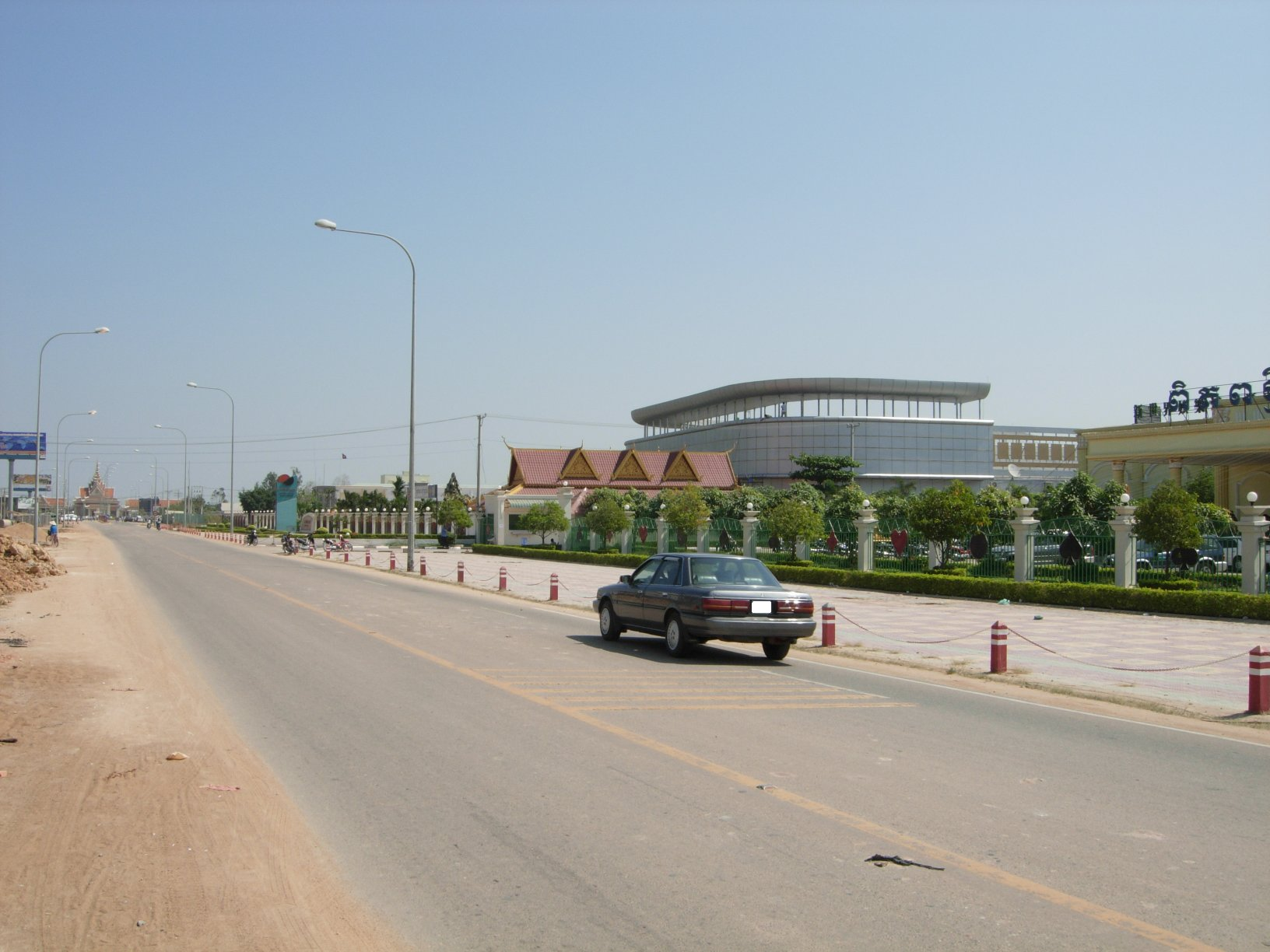 Moc Bai-Bavet border from cambodian site